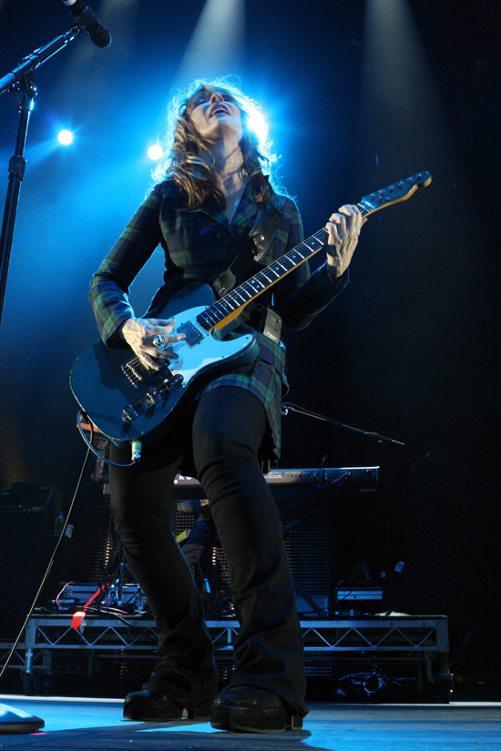 Nancy Wilson of Heart performing live in Sydney in 2011.